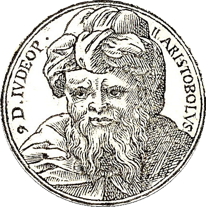 Aristobulus II